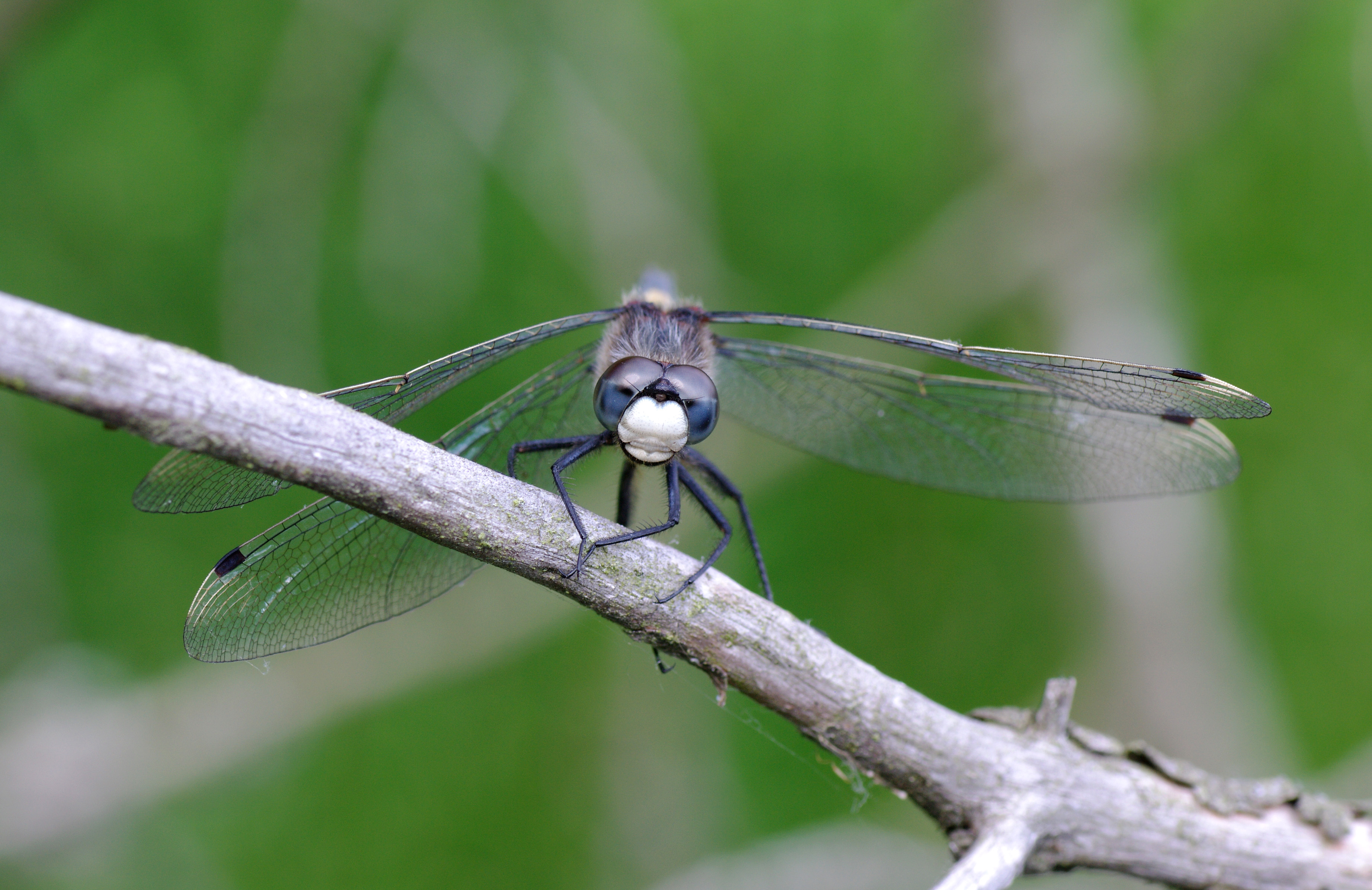 Front view of a male Large White-faced Darter Leucorrhinia pectoralis.